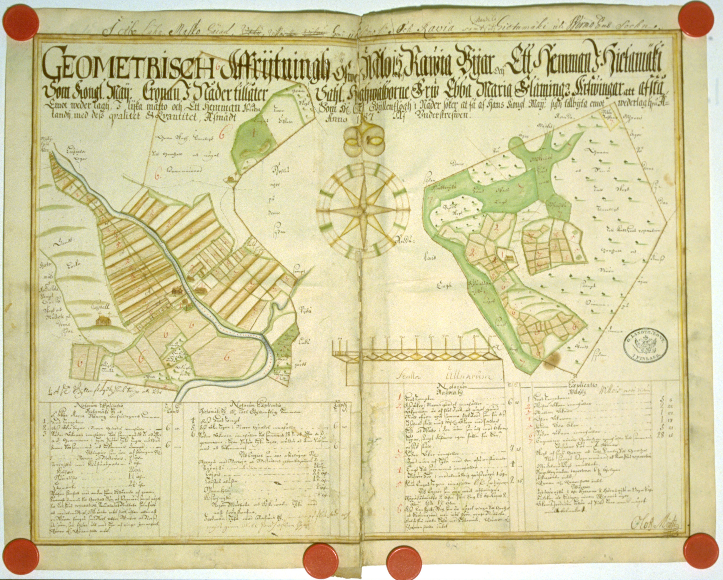 A cadastral map (year 1687) of Hietamäki village, Mietoinen, Finland. Image from Heikki Rantatupa - Historialliset kartat map collection